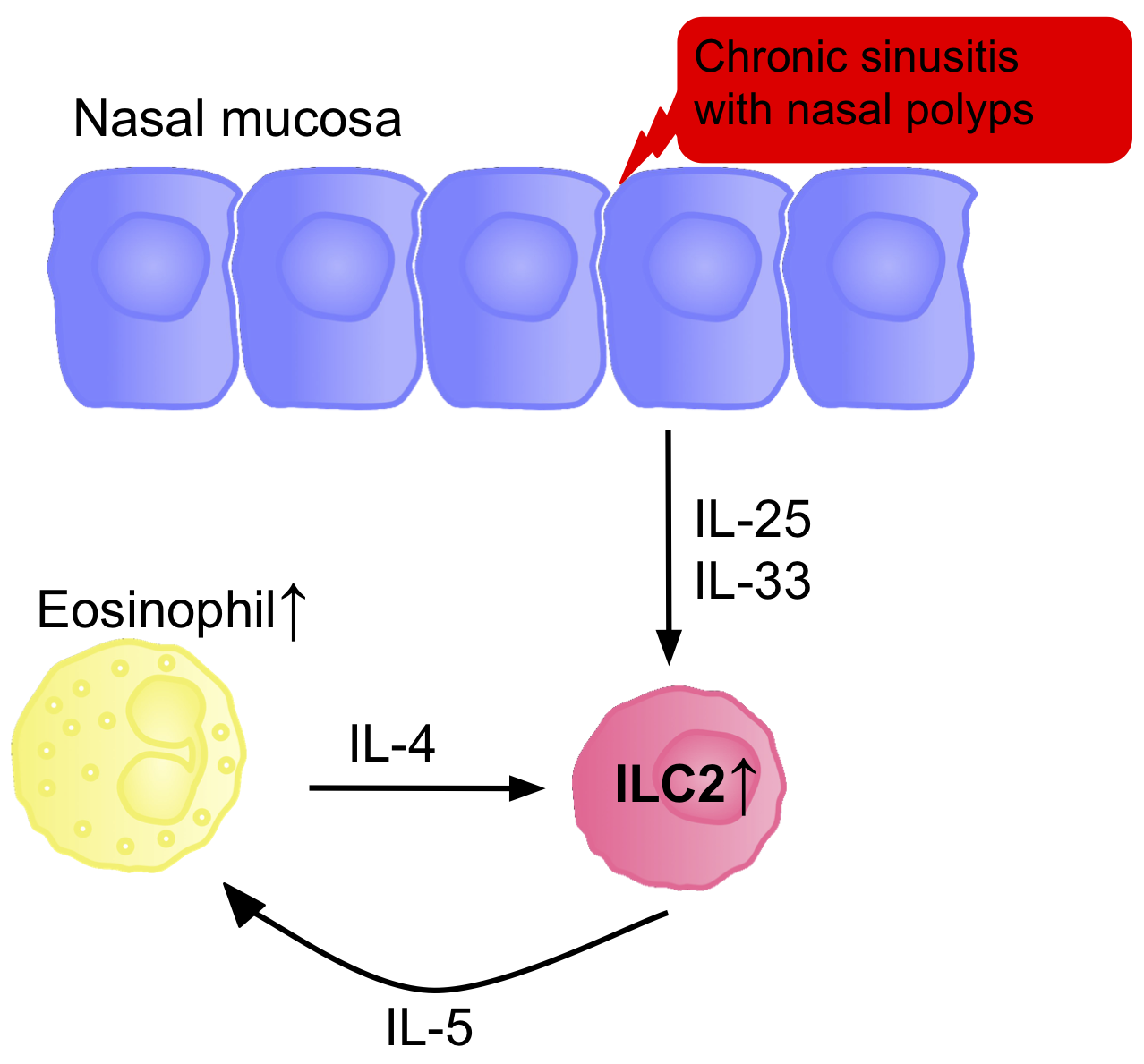 ILCs involved in the pathophysiology of allergic rhinitis.